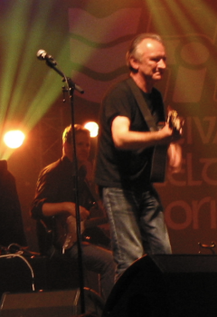 Moving Hearts performing at the InterCeltic Festival at Lorient, Brittany in August 2008.